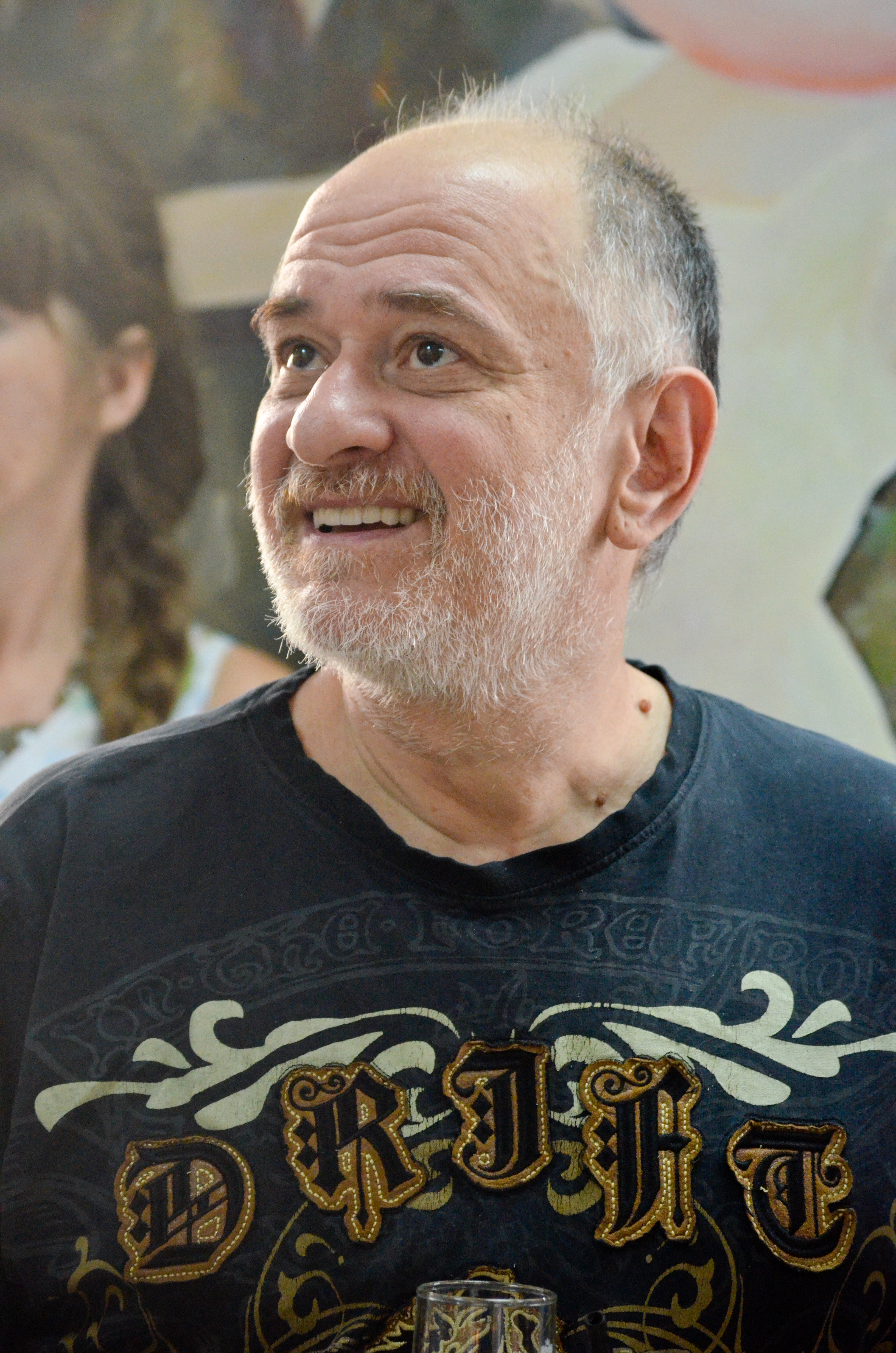 Art-project CINEMA opening at the 5th Odessa International Film Festival.